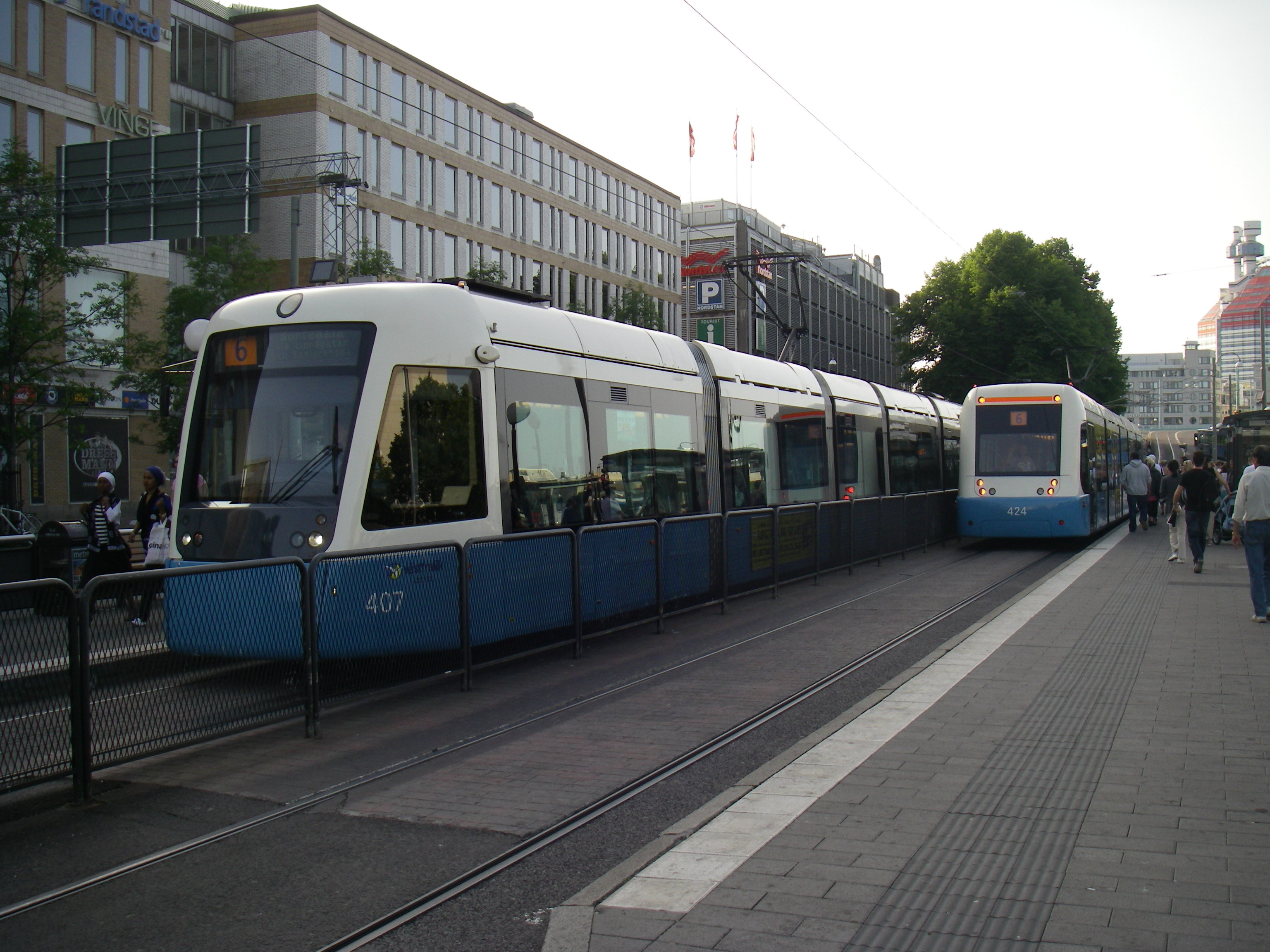 Two M32 trams on line 6 meeting.